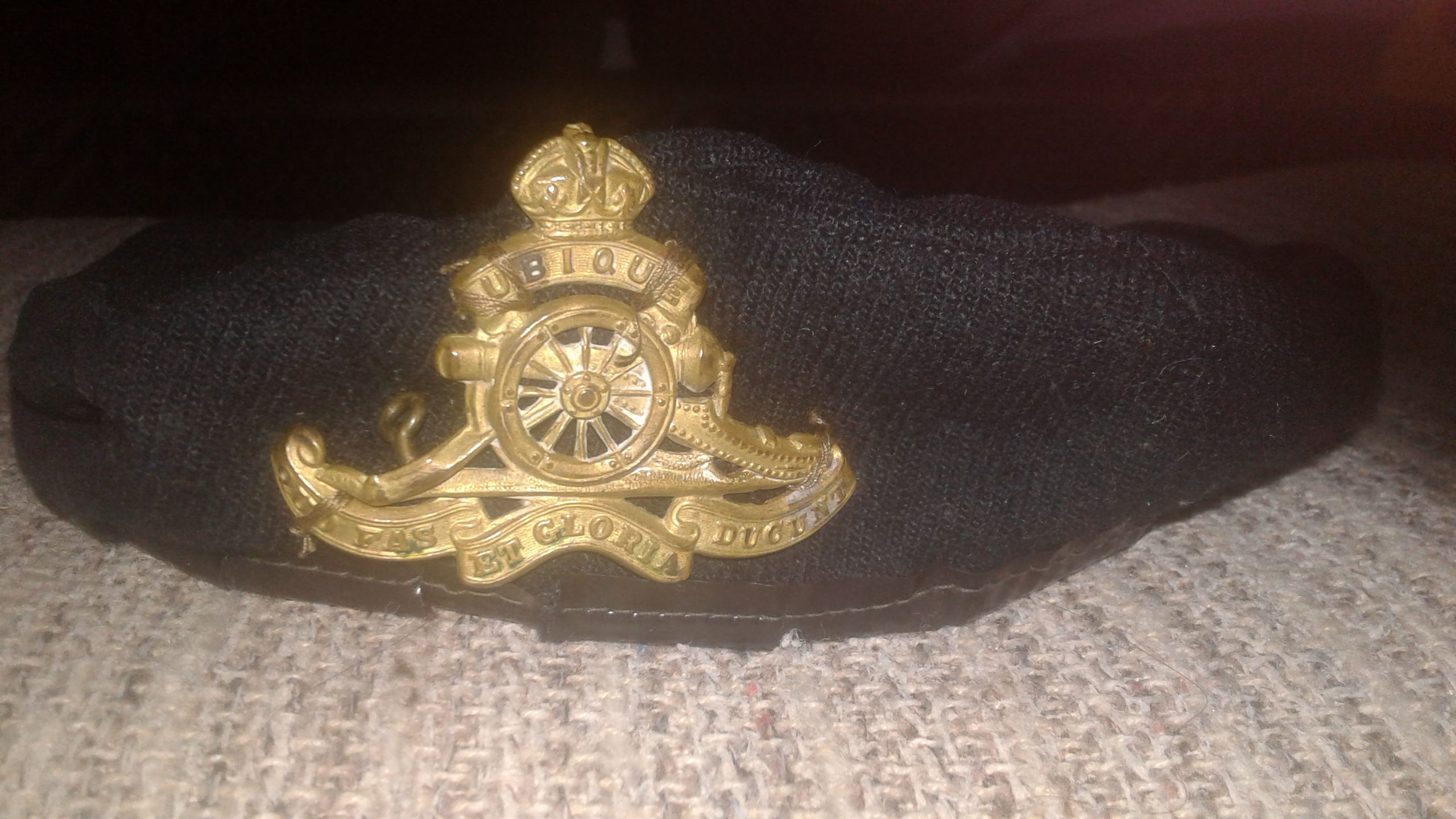 A British army beret (a Royal Artillery beret) of Meir Scheffler from Kibutz Messilot, Mandatory Palestine (later Israel). Scheffler served in the Royal Artillery between 1939-1945, World War II, at the North African and European Theaters.